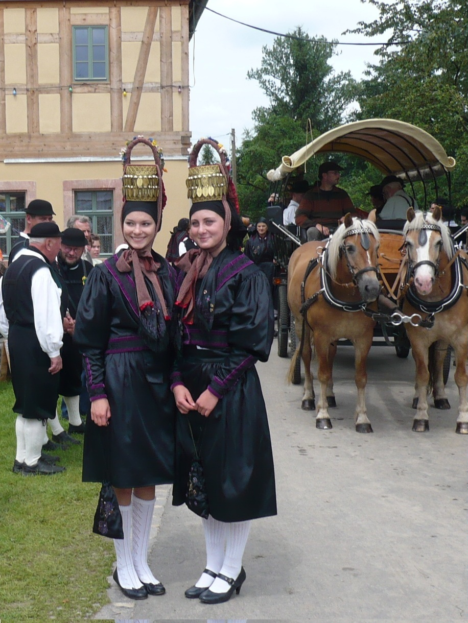 Farmer custome of region of Altenburg/Thuringia